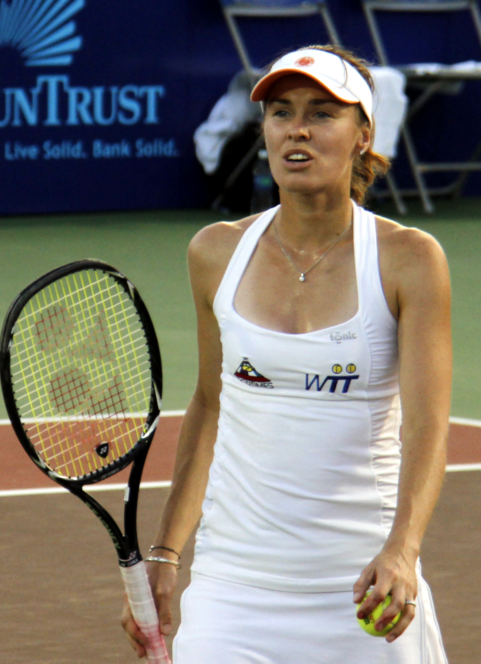 Martina Hingis playing in 2011 for the New York Sportimes